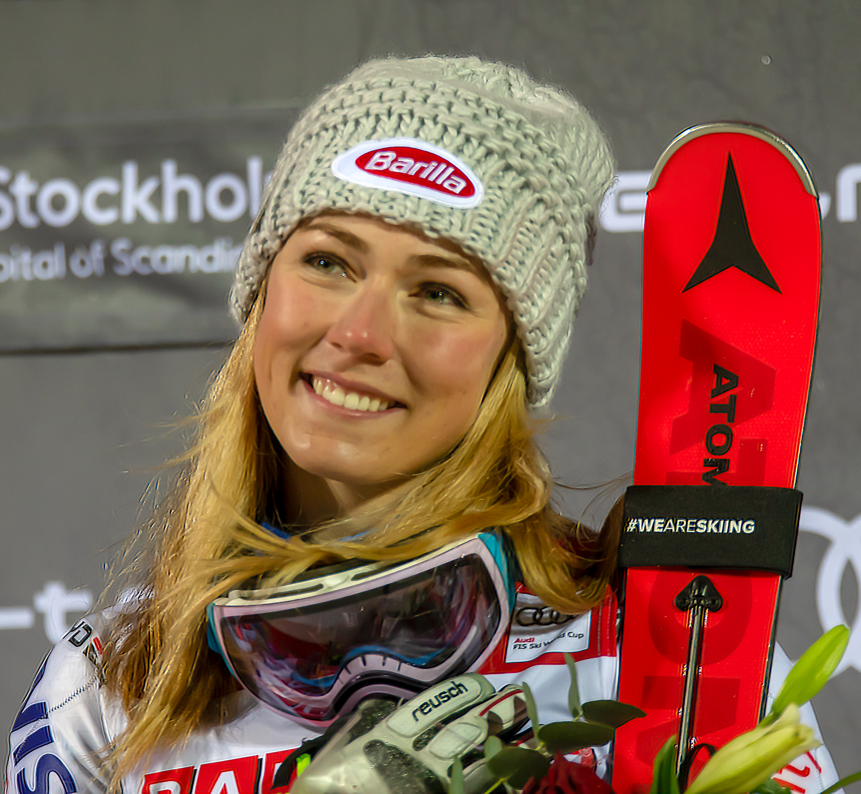 FIS Alpine Skiing World Cup in Stockholm 2019